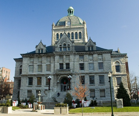 The Lexington History Center in downtown Lexington, Kentucky.